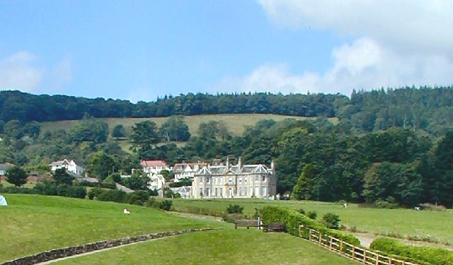 Peak House, Sidmouth. Seen from above Jacob's Ladder.